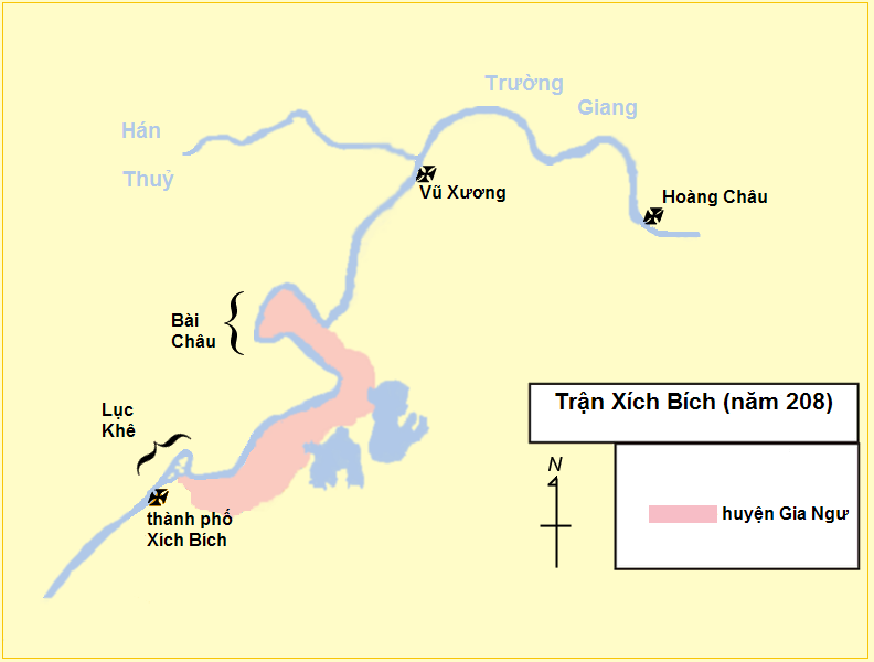 Possible locations of Battle of Red Cliffs. Vietnamese version of Image:Chibizhizhanloc2.png